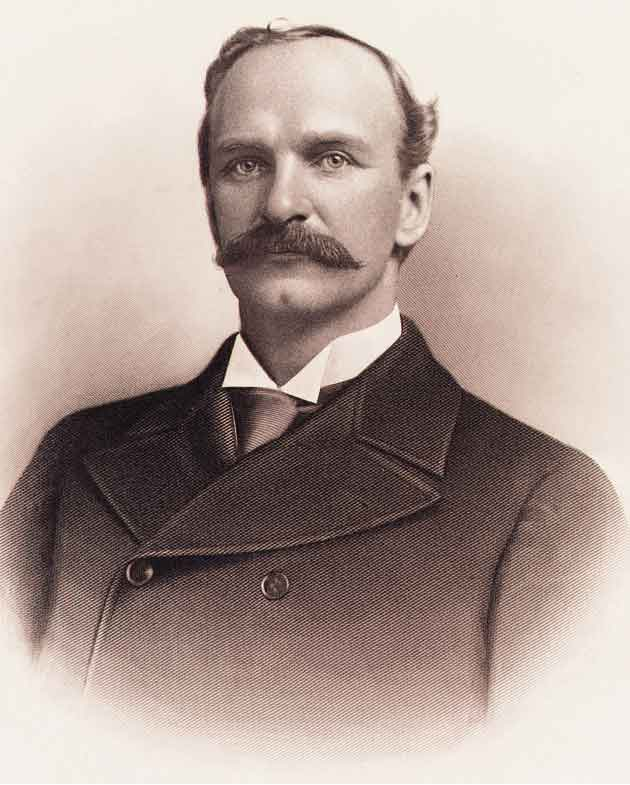 Thomas Coleman du Pont circa 1902.